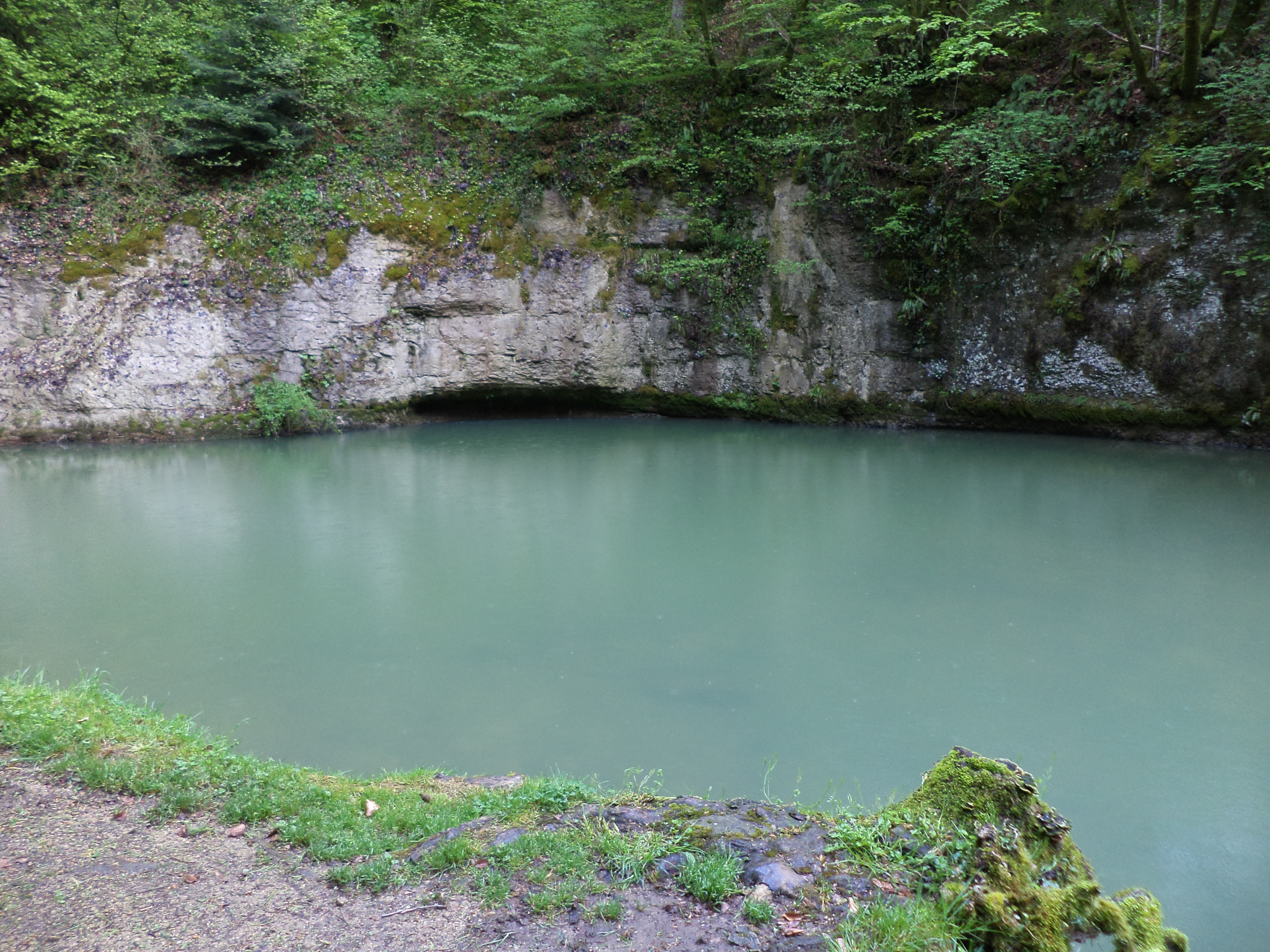 The karst spring "Source Bleue" (blue spring) in Cusance in the French Jura